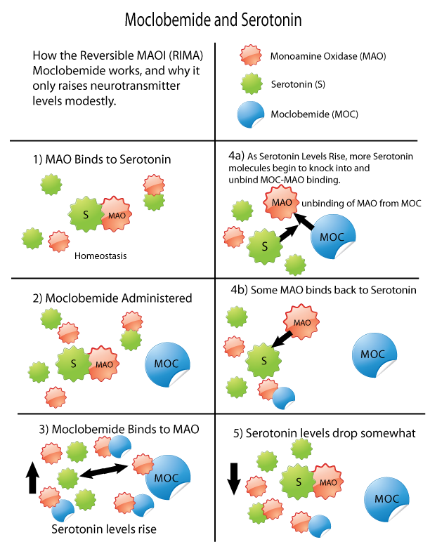 How Reversible MAOIs (RIMAs), like Moclobemide, work, and what defines their ceiling for neurotransmitter increase.